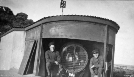 AWM caption : Fort Nepean, VIC. c. 1933. The No. 7 searchlight at Fort Nepean. "Cookie" (left) and Norman F. Garrard, participants in a Royal Australian Engineers training course.